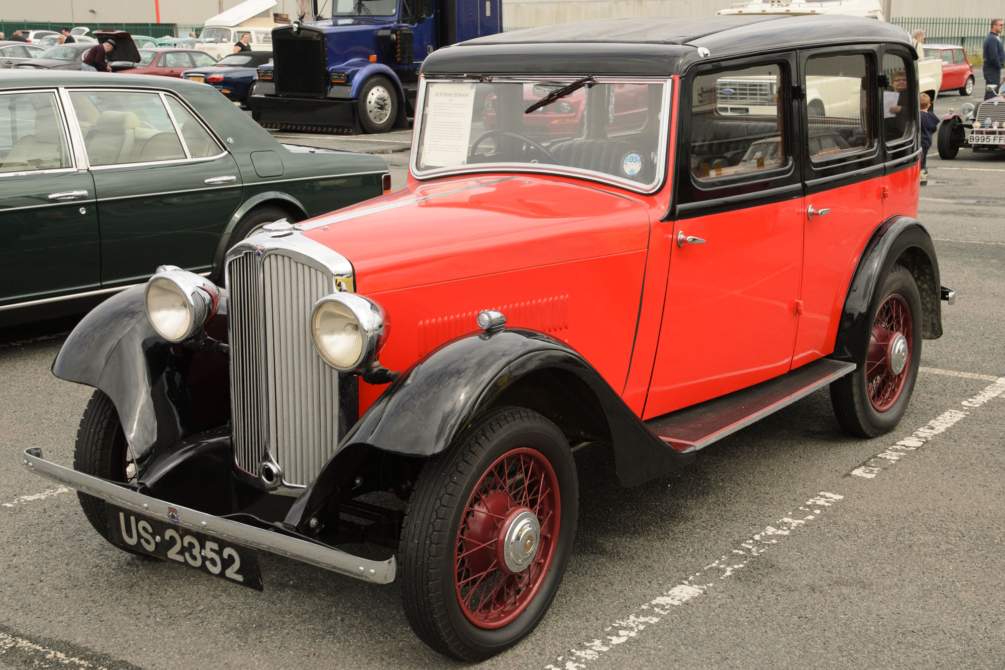 1933 Rover 10 Special US2352 (DVLA) first registered 14 July 19332/08/2015 North Cheshire Classic Car Club at Ellesmere Port This rover 10 special is in original postbox red after being lovingly restored from 2012 up until 2014. The original engine from the car suffered from a crack between cylinders 1 and 2, resulting in a new engine being fitted in its place. The engine was replaced with a more modern mg midget 1275cc engine.